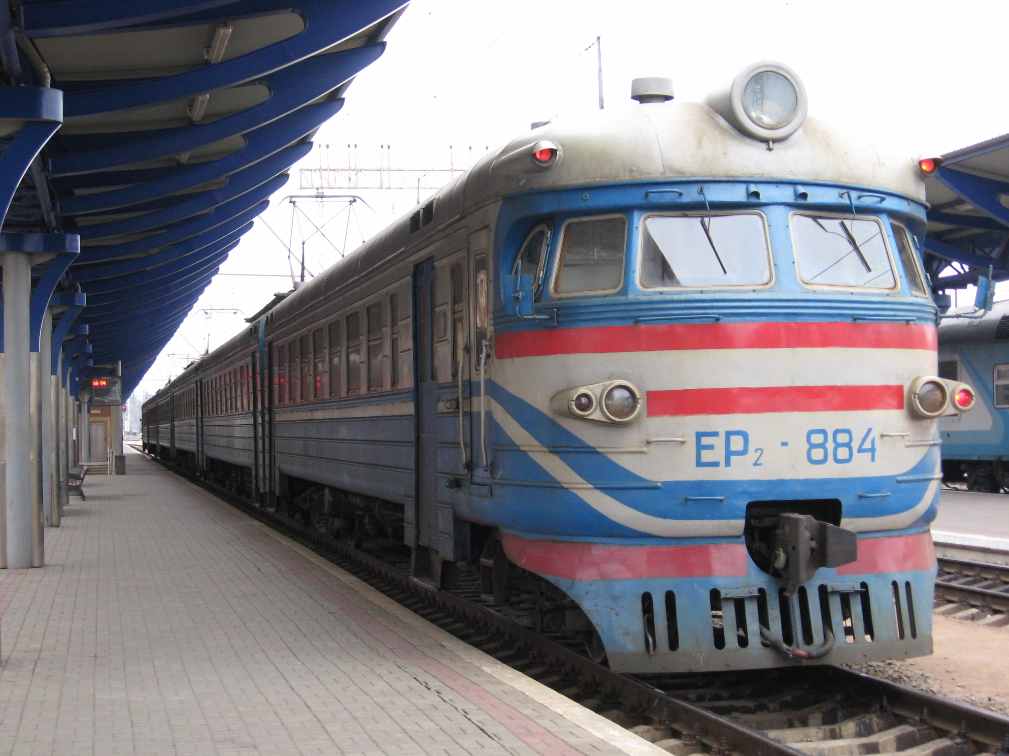 Electric multiple unit ER2-884 in Uzhhorod, Ukraine